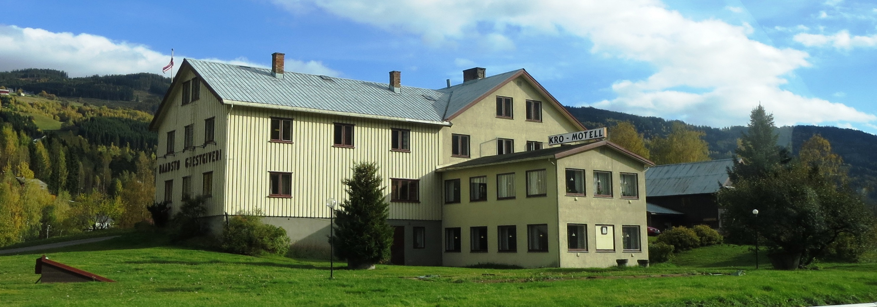 Image from the municipality of Øyer, Oppland county, east Norway.